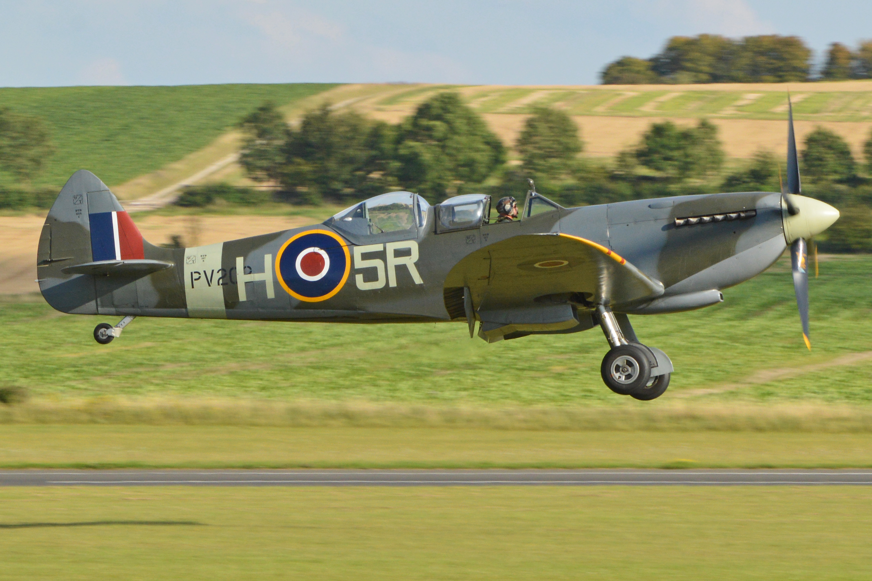 c/n CBAF.9590. Built 1944. British military serial PV202. As a two-seater she later saw service with the Irish Air Corps as ‘161’ and the Royal Netherlands Air Force as ‘H-98’. Now owned and operated by Duxford based Historic Flying Ltd. Seen landing at the Imperial War Museum, Duxford, Cambridgeshire, UK. 15th August 2017